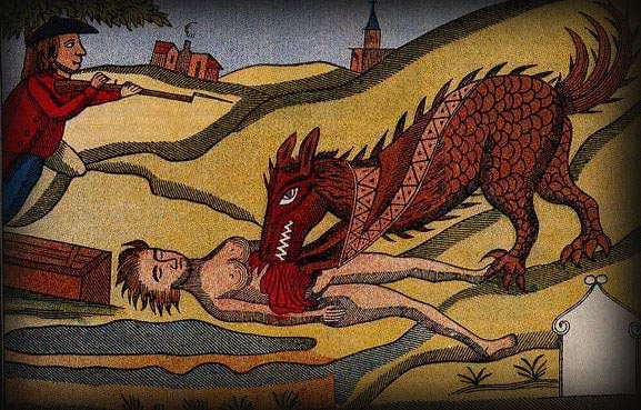 Human predation by the Beast of Gévaudan, period print